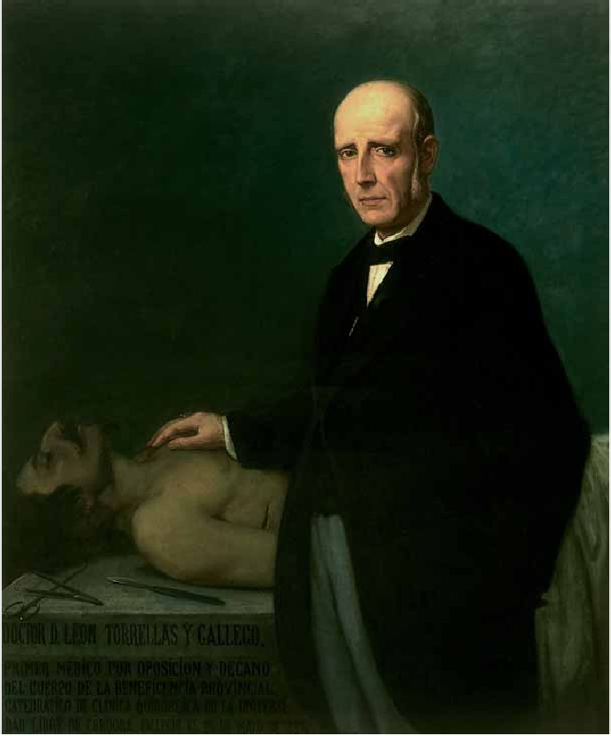 Portrait of Dr. Mr. Leon Torrellas y Gallegos (1817-1890).